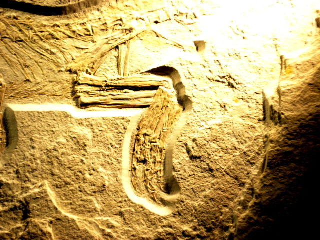 Fossil theropod (gen. nov. sp. nov.) from the plattenkalk of Peinten, Germany.